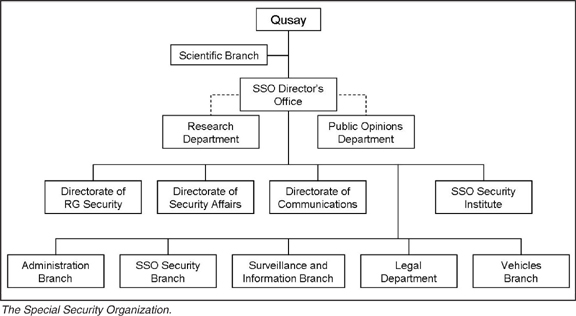 Organizational chart of the Iraqi Special Security Organization.